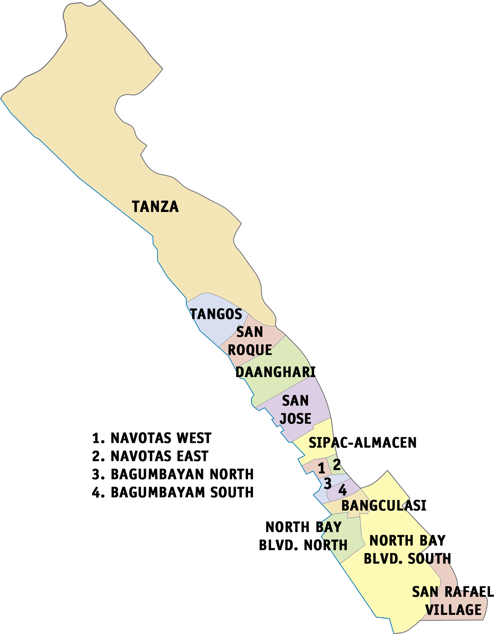 Political map of Navotas, Philippines